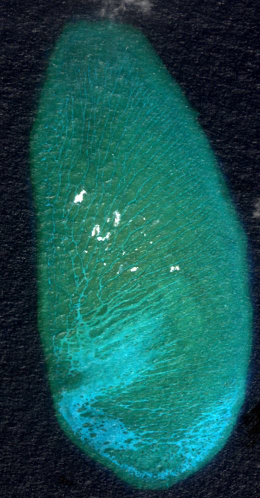 Hopkins Reef